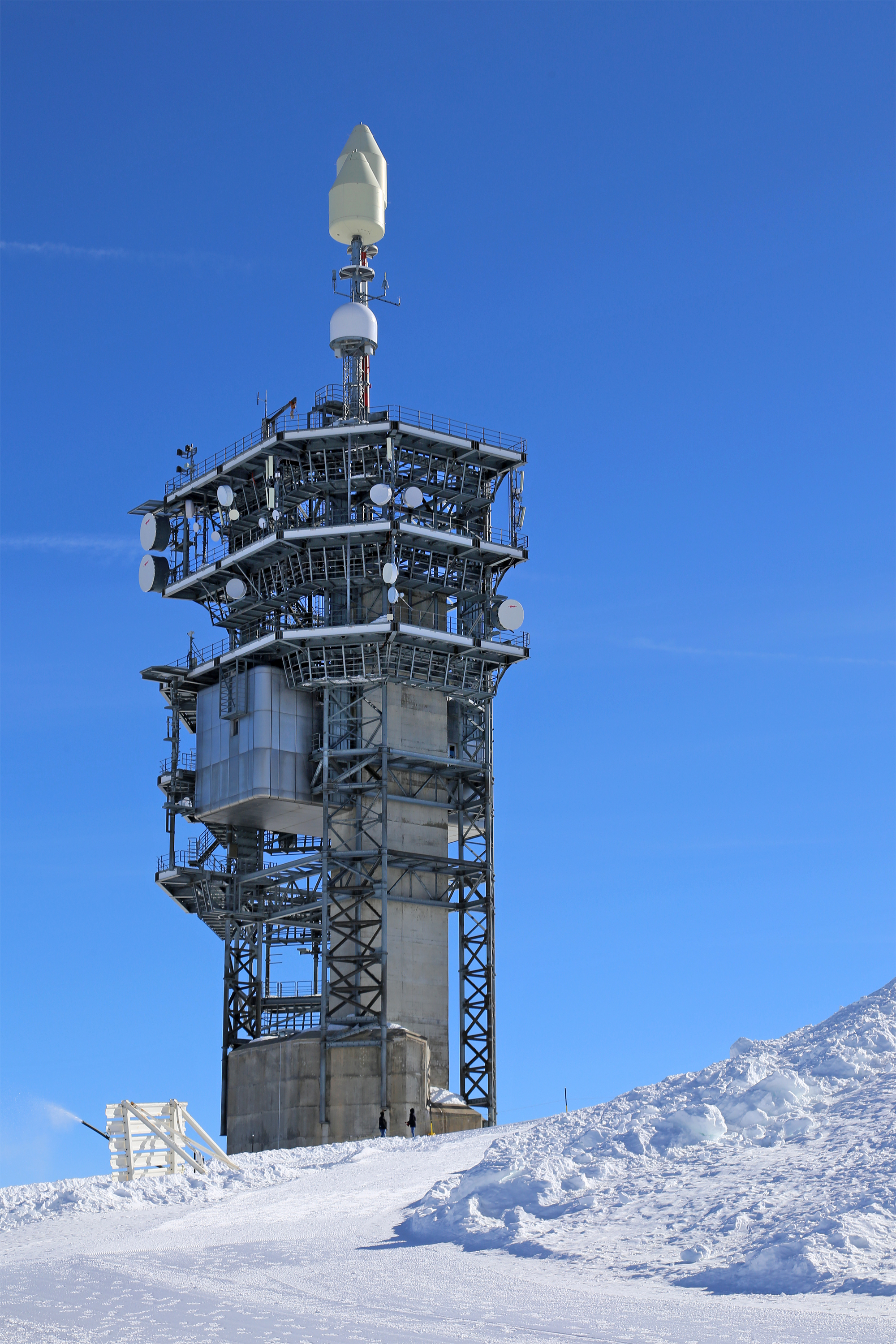 Radio mast made of steel framework on the Titlis, a well-known excursion mountain (3,230 meters above sea level) in the mountain range of the Uri Alps. At Engelberg in the Swiss canton of Obwalden.